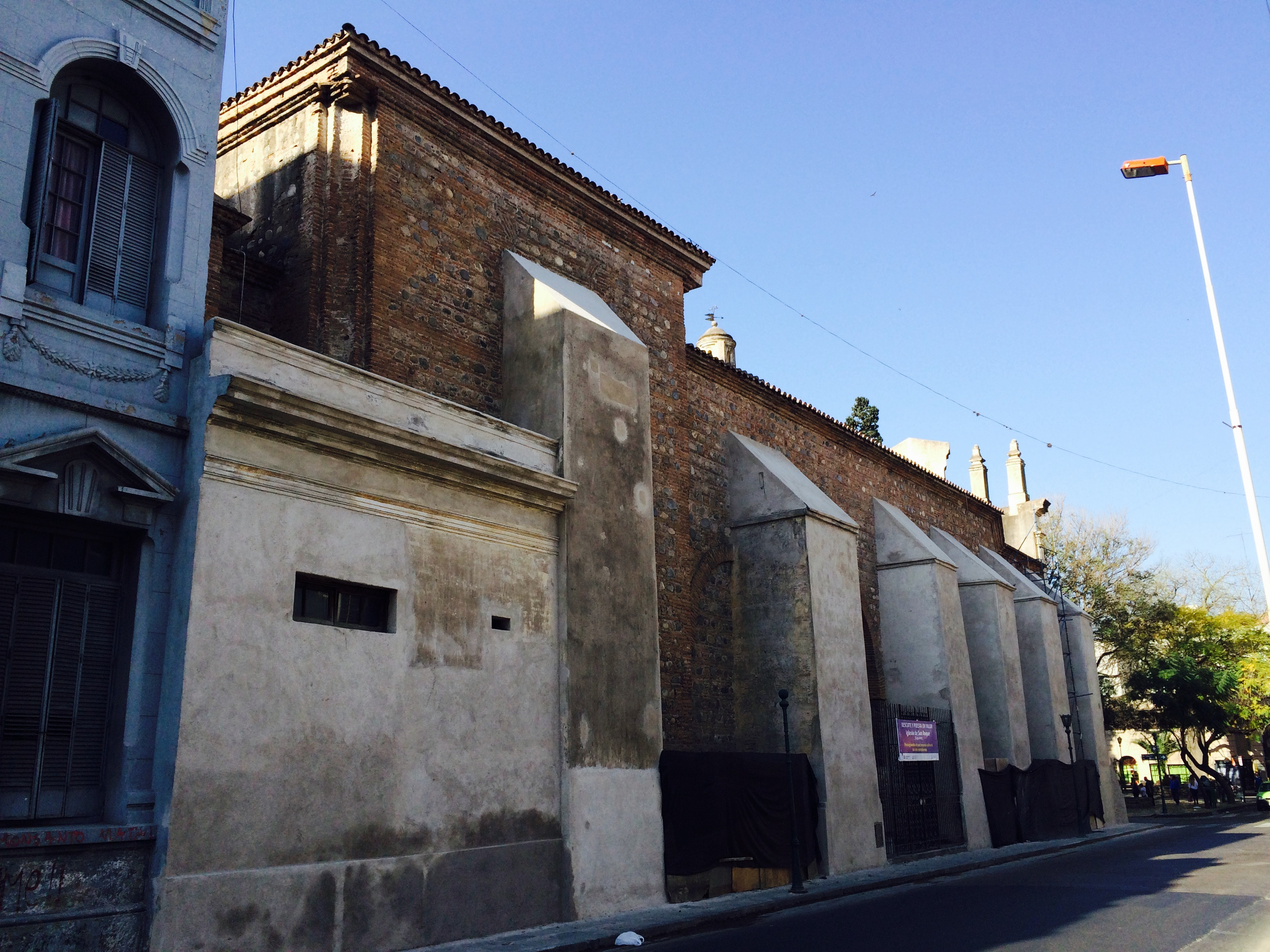 left old